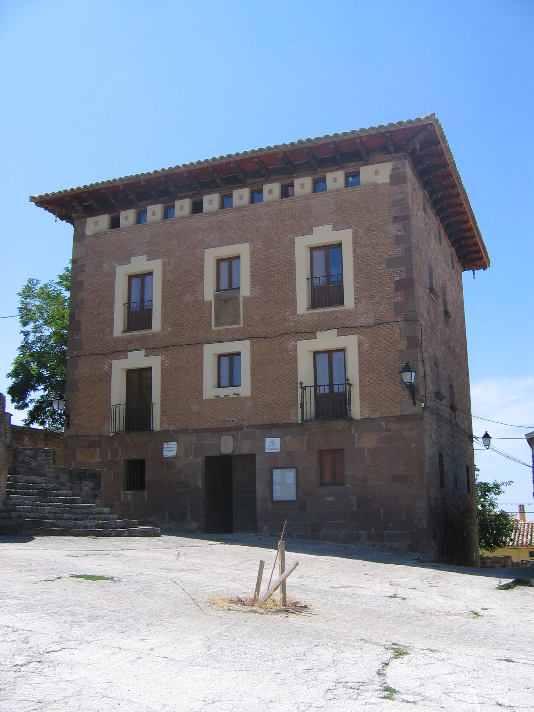 Undués de Lerda: Palace / Youth Hostel